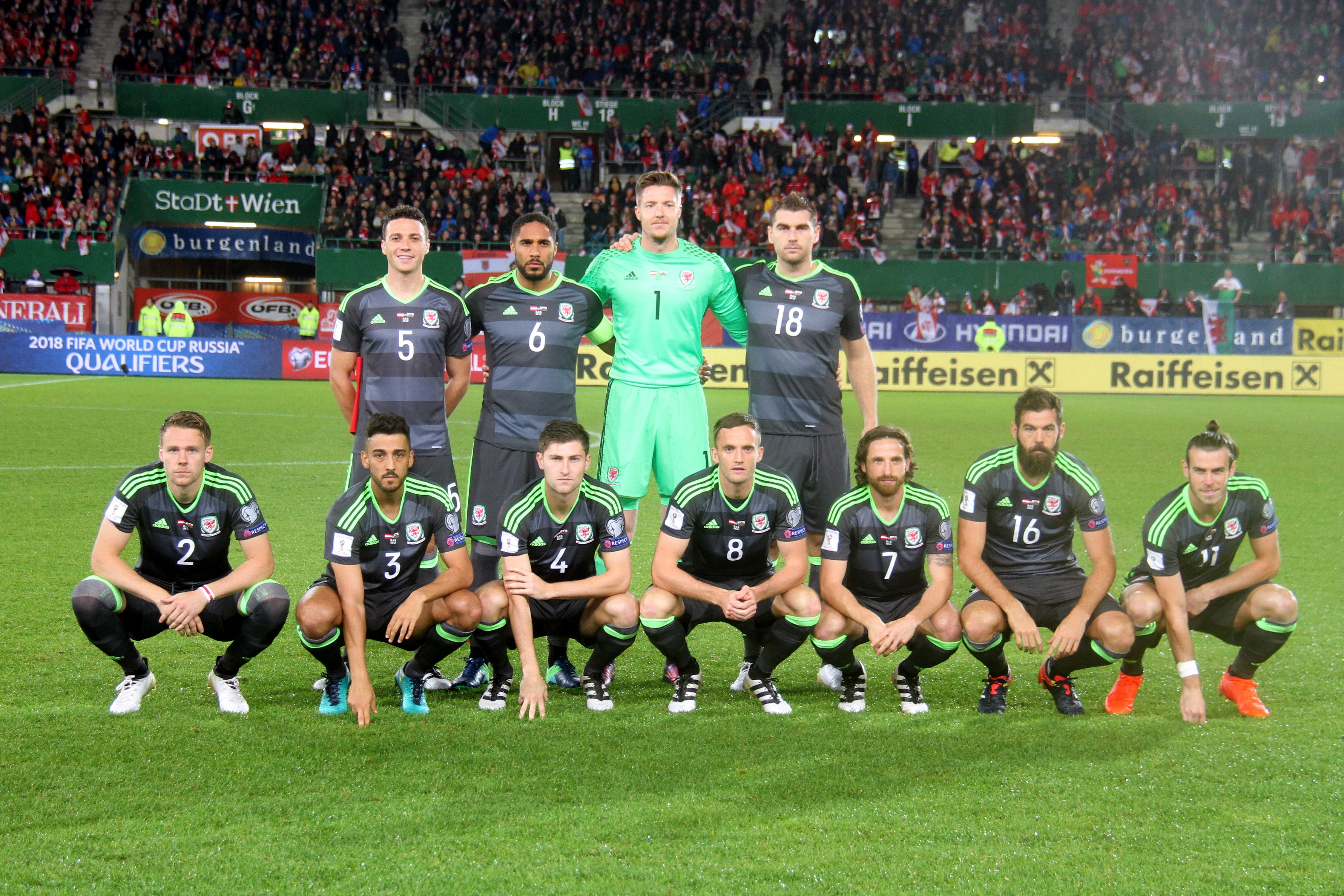 2018 FIFA World Cup qualification – UEFA Group D) – Austria (red shirts) vs. Wales (black shirts) 2-2 (1-2) – 2016-10-06 in Vienna, Ernst-Happel-Stadion – The photo shows from left to right: 1st row: Chris Gunter, Neil Taylor, Ben Davies, Andy King, Joe Allen, Joe Ledley and Gareth Bale; 2nd row: James Chester, Ashley Williams, Wayne Hennessey and Sam Vokes.